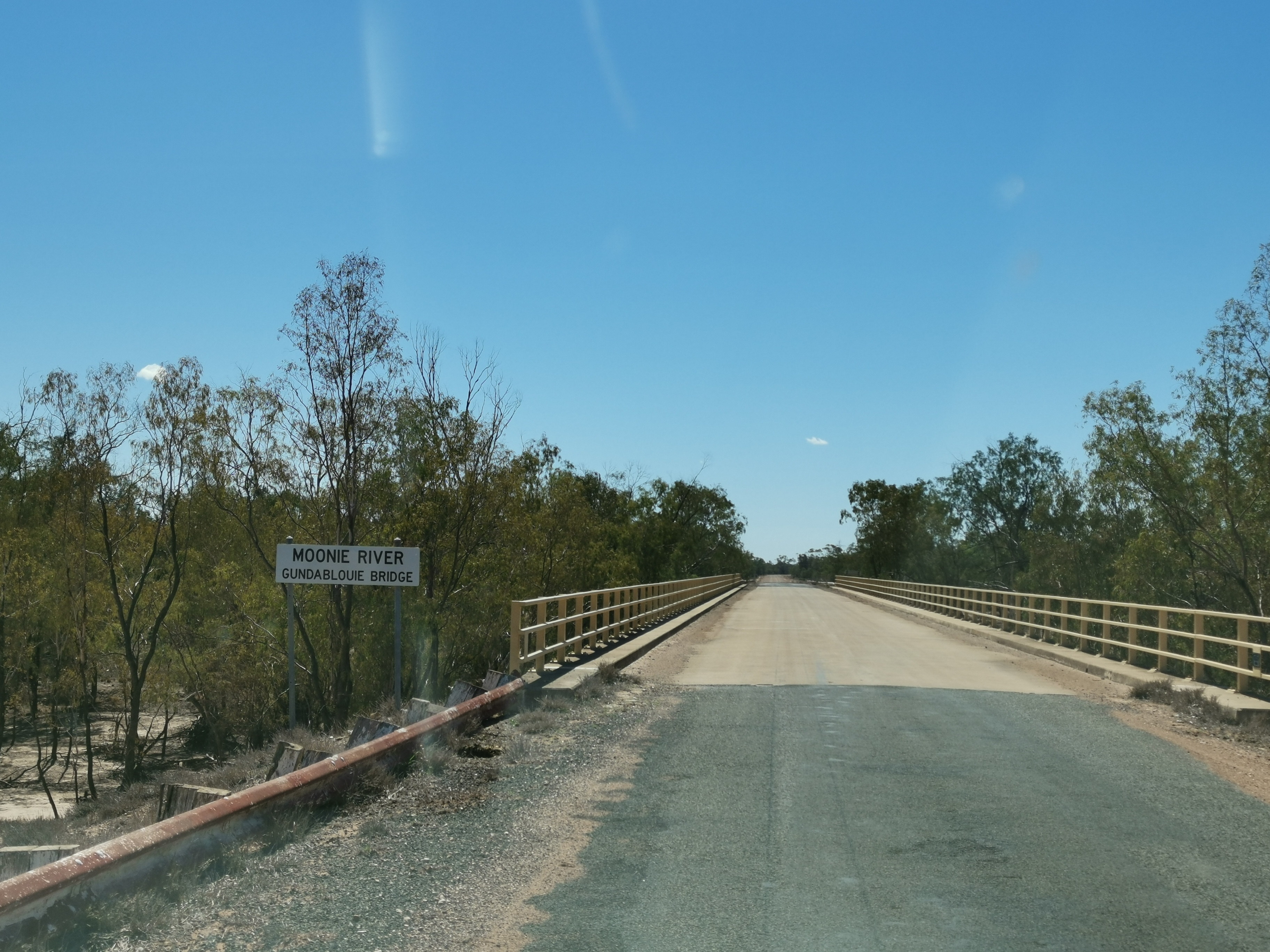 Gundablouie Bridge is the bridge by which Gundabloui Road crosses the Moonie River near Goondoobluie farm in Collarenebri, New South Wales. Note the different spelling for the names of the bridge, the road and the farm. The sign shows the name of the river with its common spelling, Moonie River, although the official name approved by the Geographic Names Board of New South Wales is Mooni River.